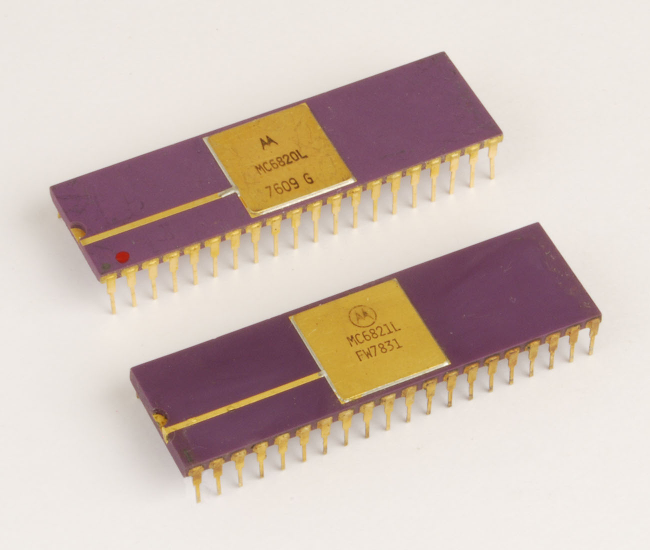 Motorola M6800 family Peripheral Interface Adapters (PIA). The PIA has two bidirectional 8-bit interface ports each with two control lines. The MC6820 was introduced in 1974 and fabricated with enhancement-mode NMOS. In 1976 the family was moved to a depletion-load technology to reduce chips size and increase speed. The electrical characteristics of the PIA interface were changed and the new part was named the MC6821. The L suffix indicates a ceramic package; the P suffix was for a plastic package.